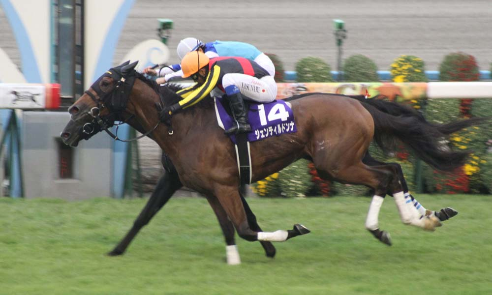 Gentildonna at the 17th Shuka-sho horserace